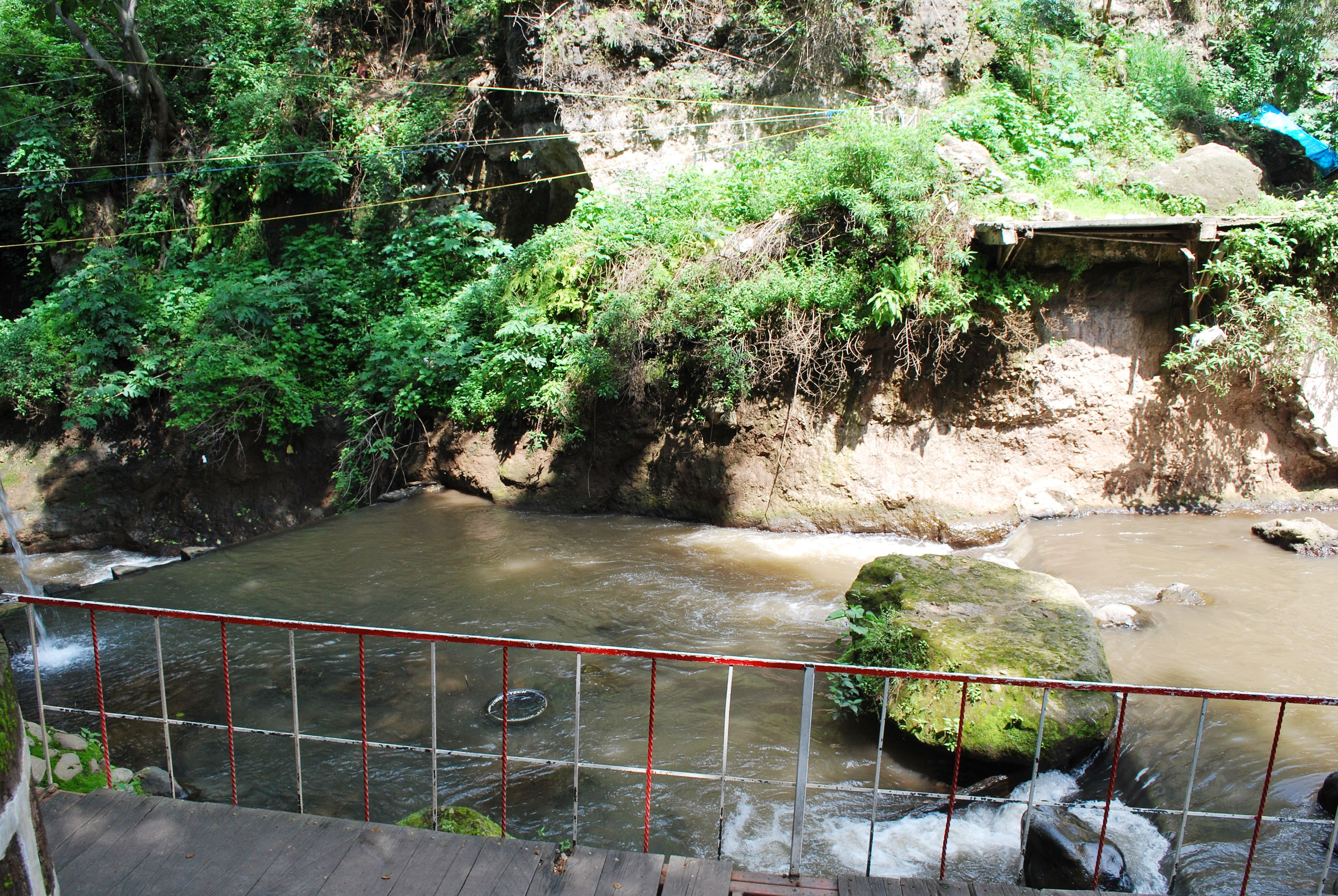 La Escondida River as it passes by the Sanctuary of Chalma in Chalma, Malinalco, Mexico State